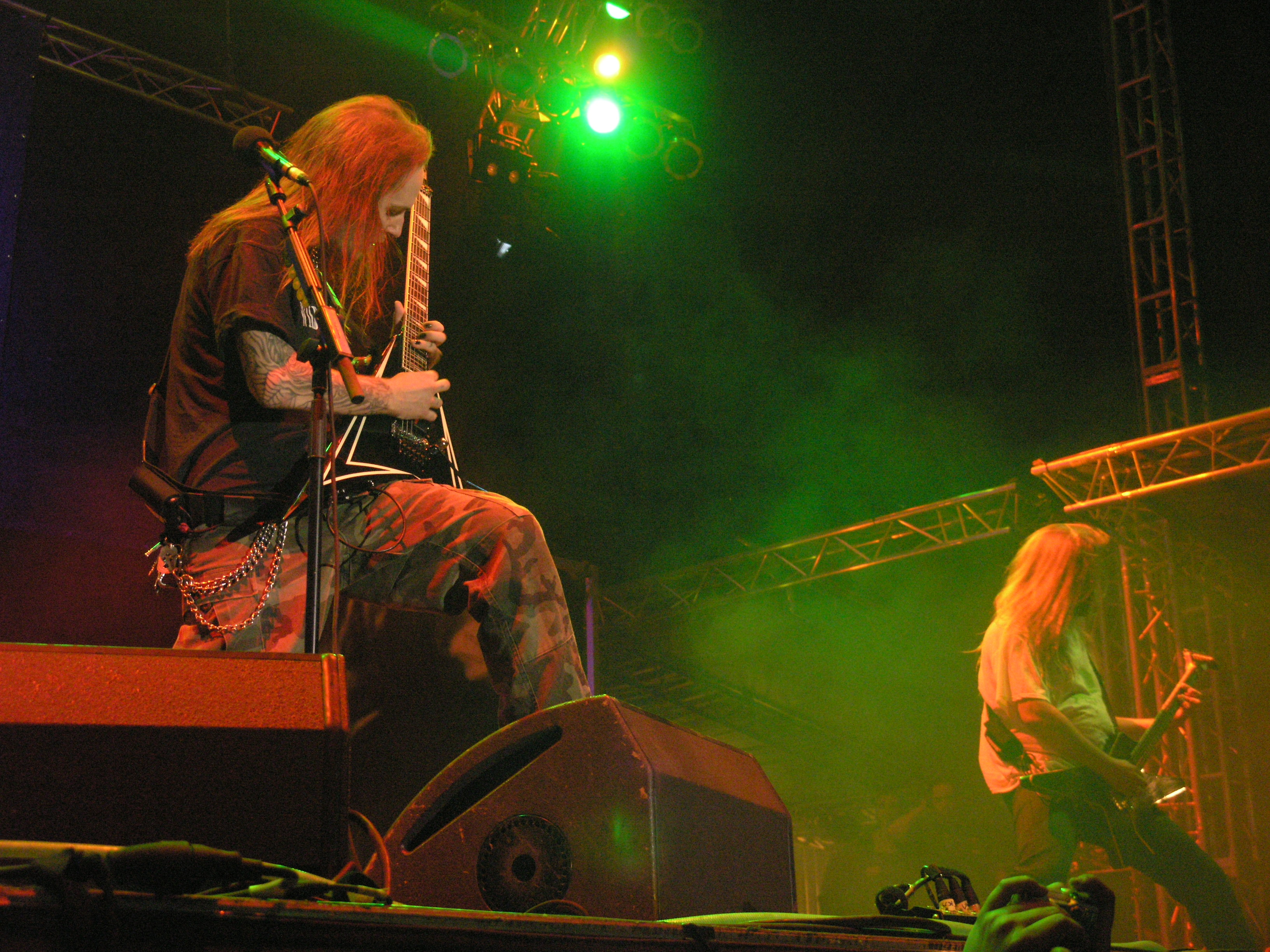 Music band Children of Bodom during Masters of Rock 2007 festival